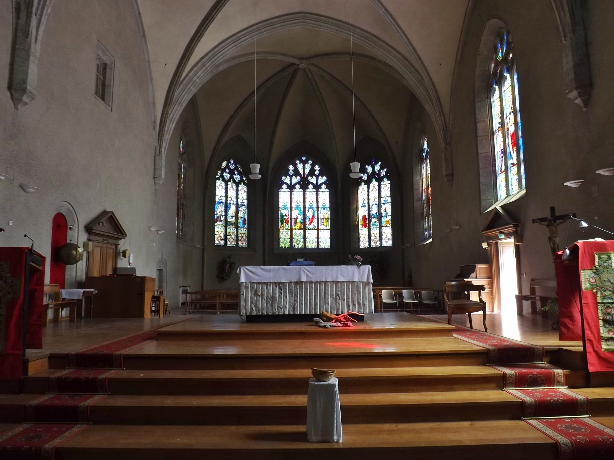 Sight of the altar and choir inside the église Saint-Pierre de Lémenc church, on the heights of Chambéry, Savoie, France.